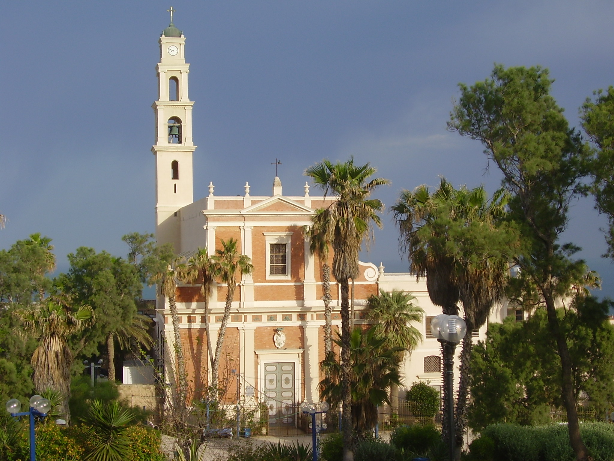 st. peter\'s church in jaffa